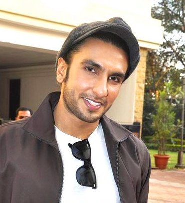 Ranveer Singh at the launch party of Lootera, his third film.